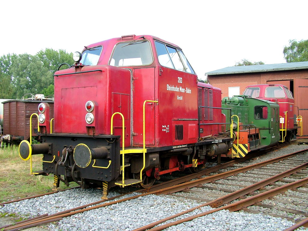 Diesel engines of the Grafschafter Modelleisenbahnclub (County model railway club) at railway museum Neuenhaus, Germany